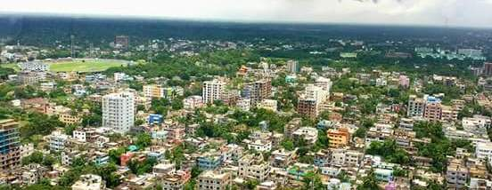 Panoroma of Rajshahi city skyline